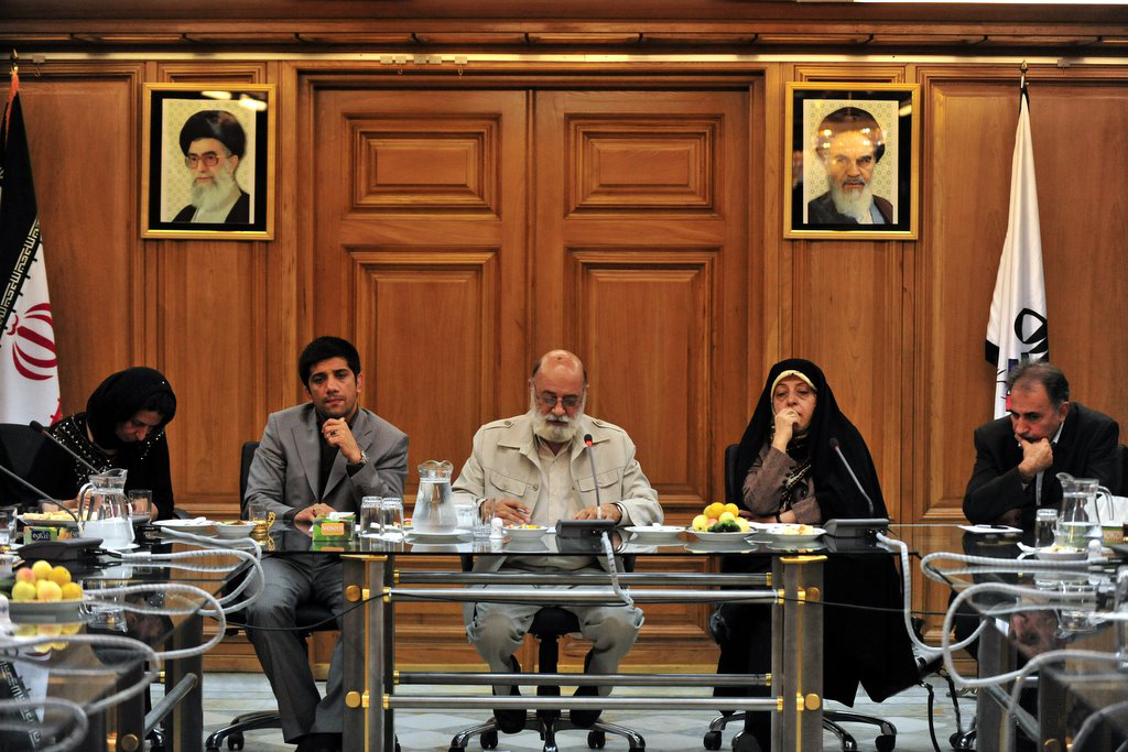 From right to left: Dr. Najafi, Dr. Ebtekar, Mr. Chamran, Mr. Dabir (members of the council) and Mrs. A'rabi (Mother of martyr Sohrab A'rabi) Tehran Islamic City Council (شورای شهر تهران) The meeting room was full of crowd today. Some people didn't have any seat. They were families of arrested, disappeared and killed politicians, journalists, lawyers and normal people who was arrested during the election aftermath. Families introduced themselves and talked about their problems, and the fact that they are unable to contact their son/daughter/sister/brother/father. And that they are under physical, neural and mental torture. Even a mother told that she heard that her daughter is being raped in jail.